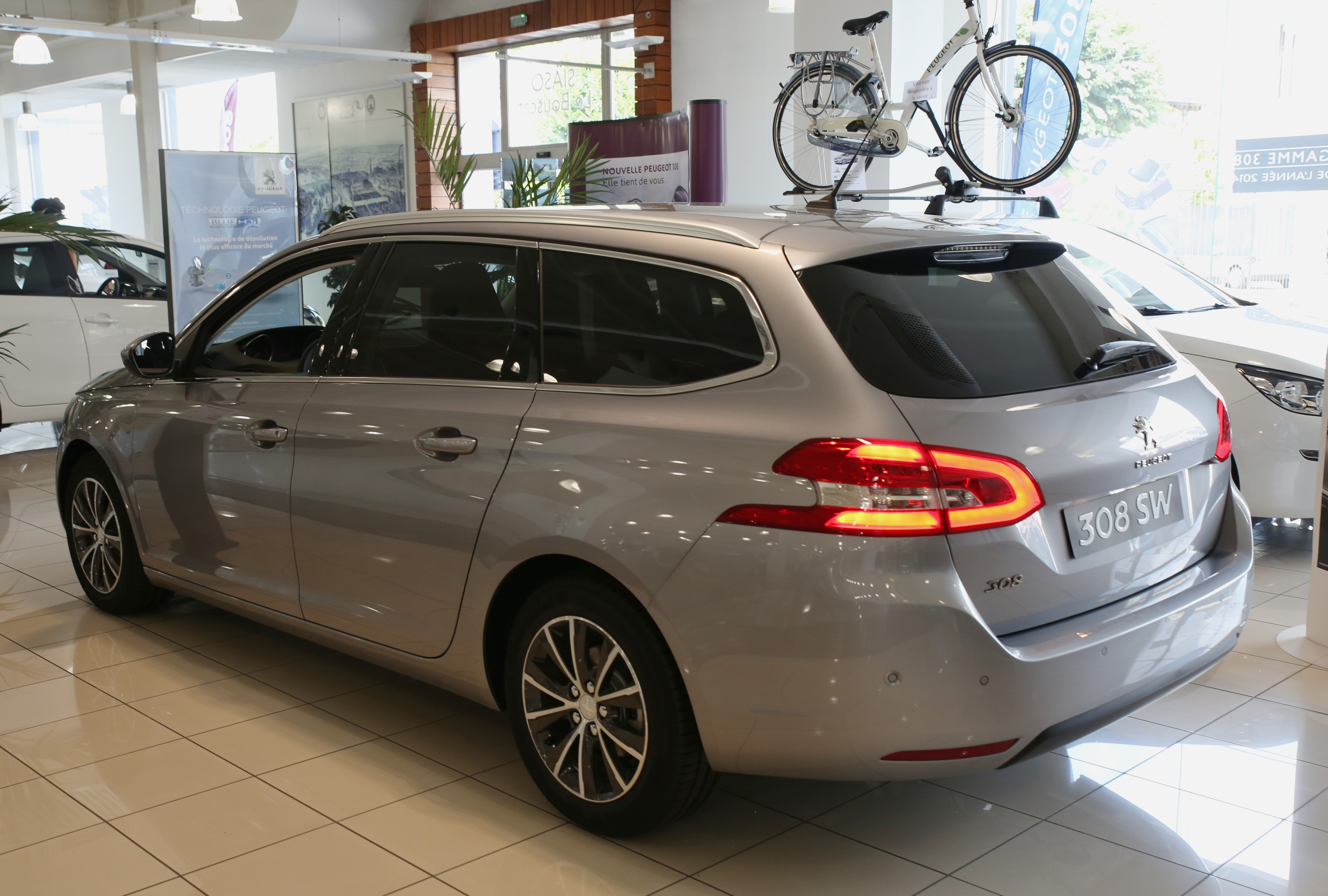 Peugeot 308 SW 2014